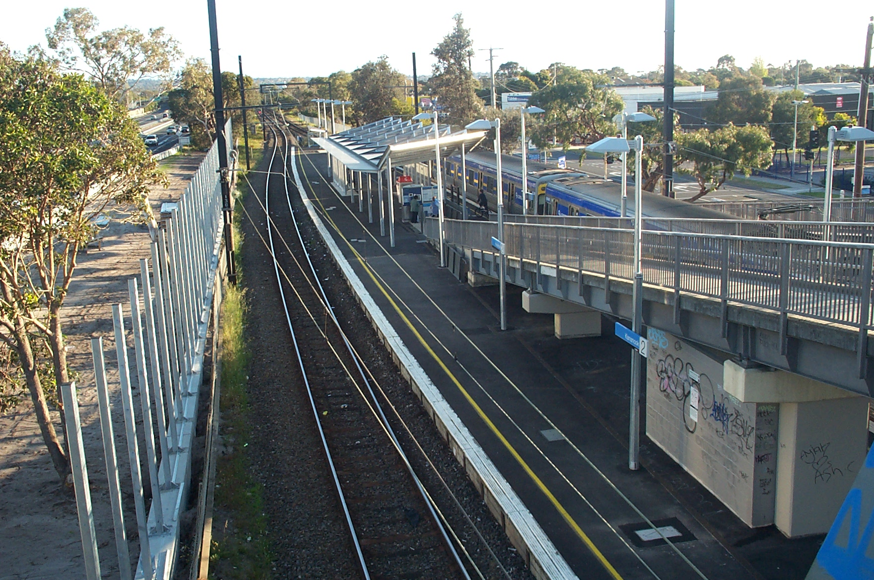 Photograph of Kananook railway station, Melbourne. View from pedestrian overpass looking south.